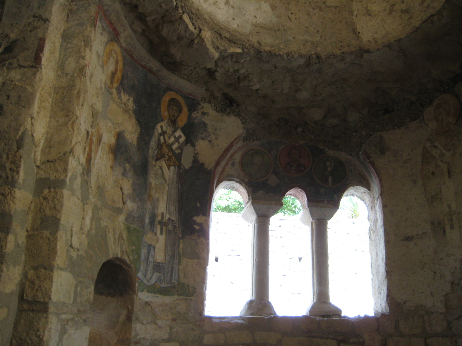 L'intérieur de l'église